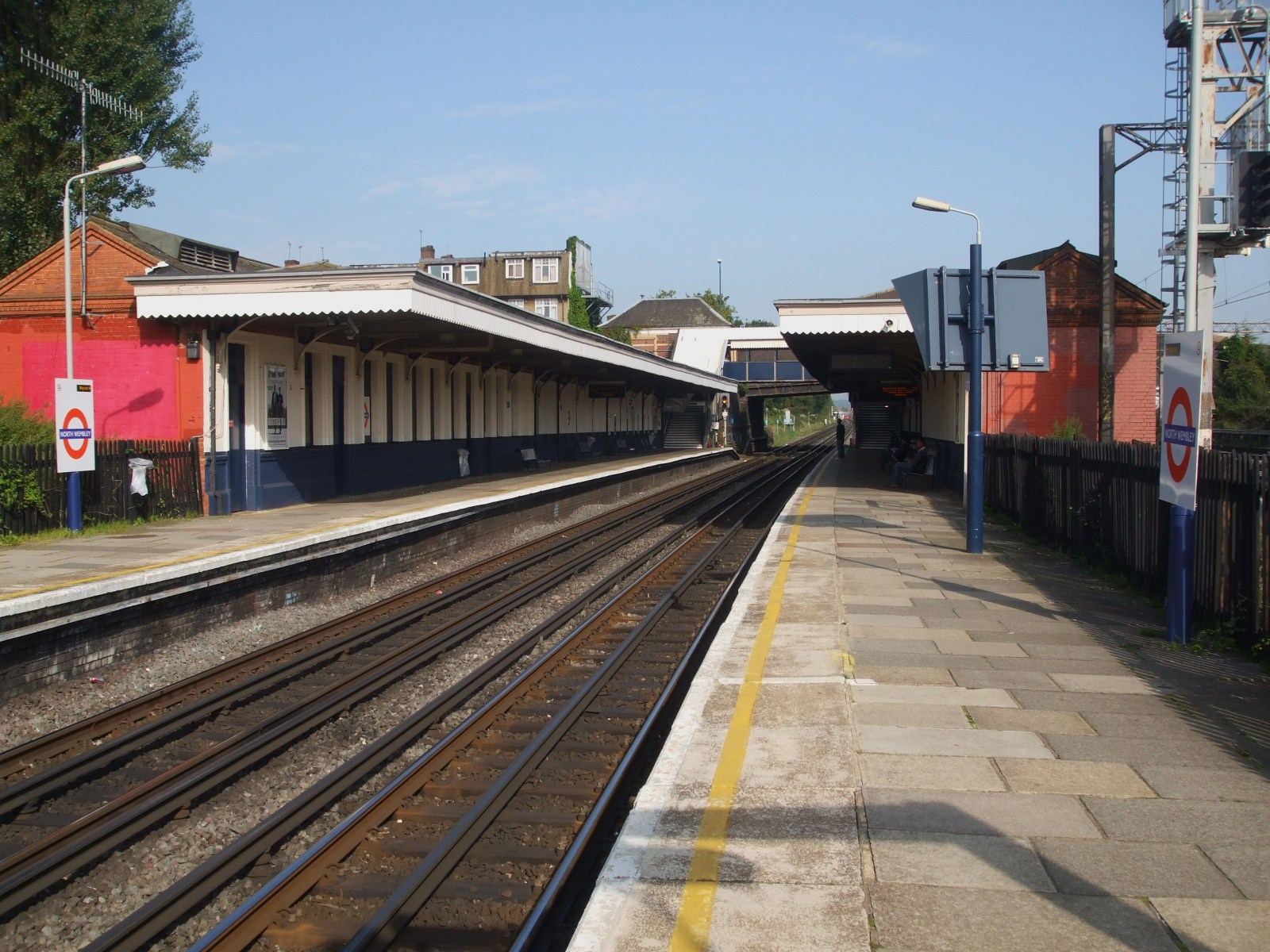 North Wembley station looking north. West Coast Main Line visible on the right.